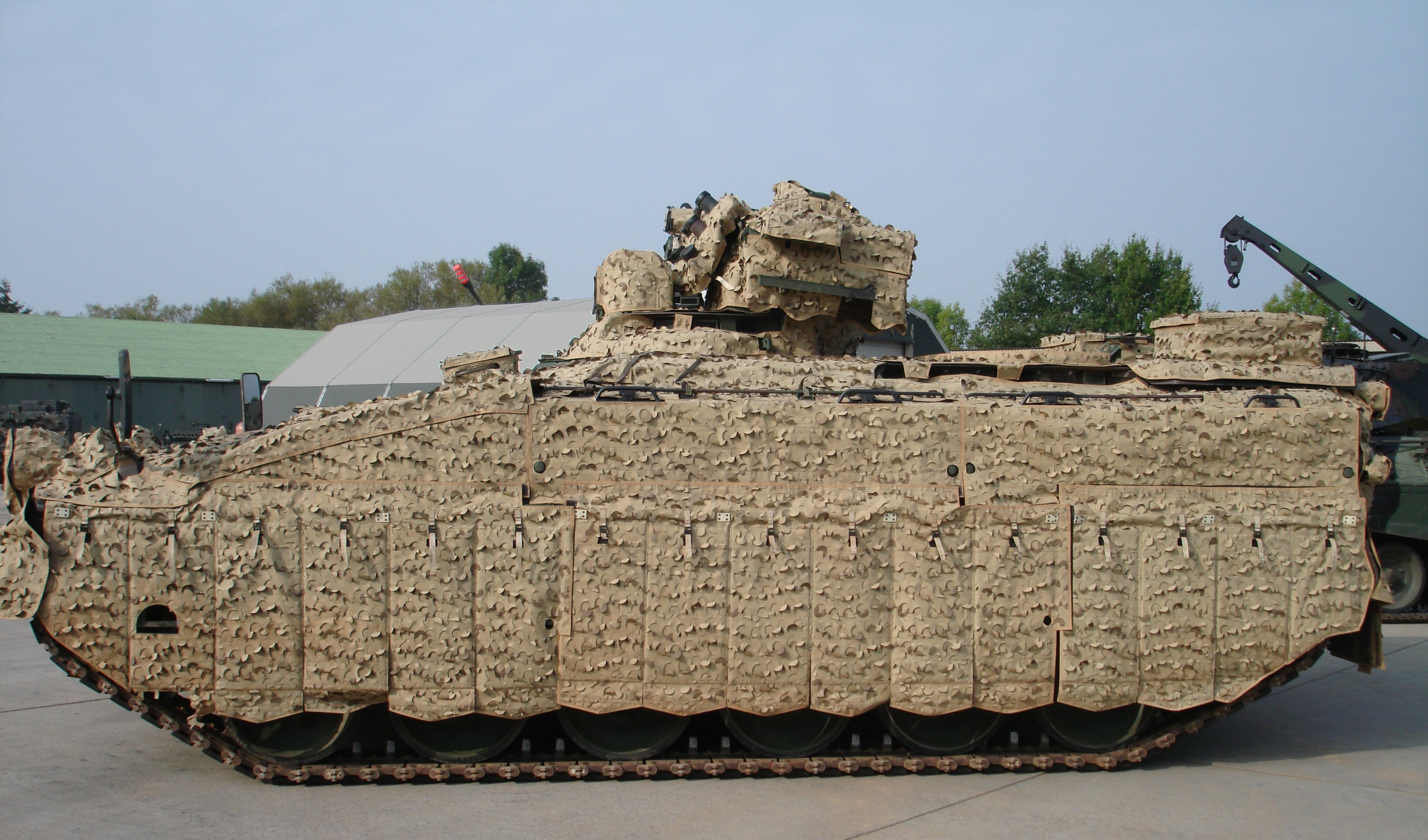 IFV Marder 1A5 with Mobile Camouflage System (MCS).